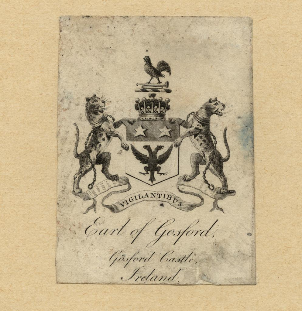 Armorial/Heraldic Bookplates. Subject: Coat of arms; Shields; Animals; Crowns. Subject - Family Name: Acheson.